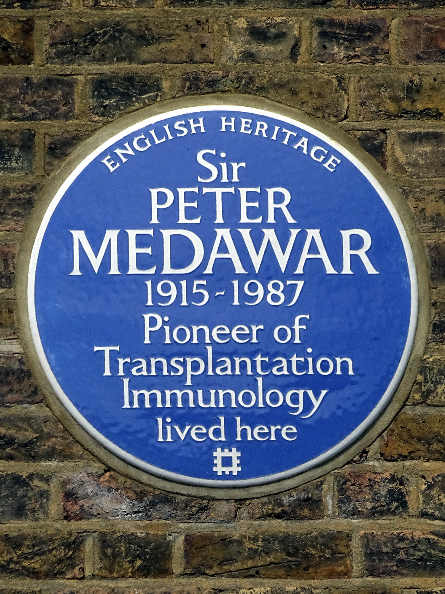 Blue plaque erected on 14th July 2014 by English Heritage at 25 Downshire Hill, Hampstead, London NW3 1NT, London Borough of Camden